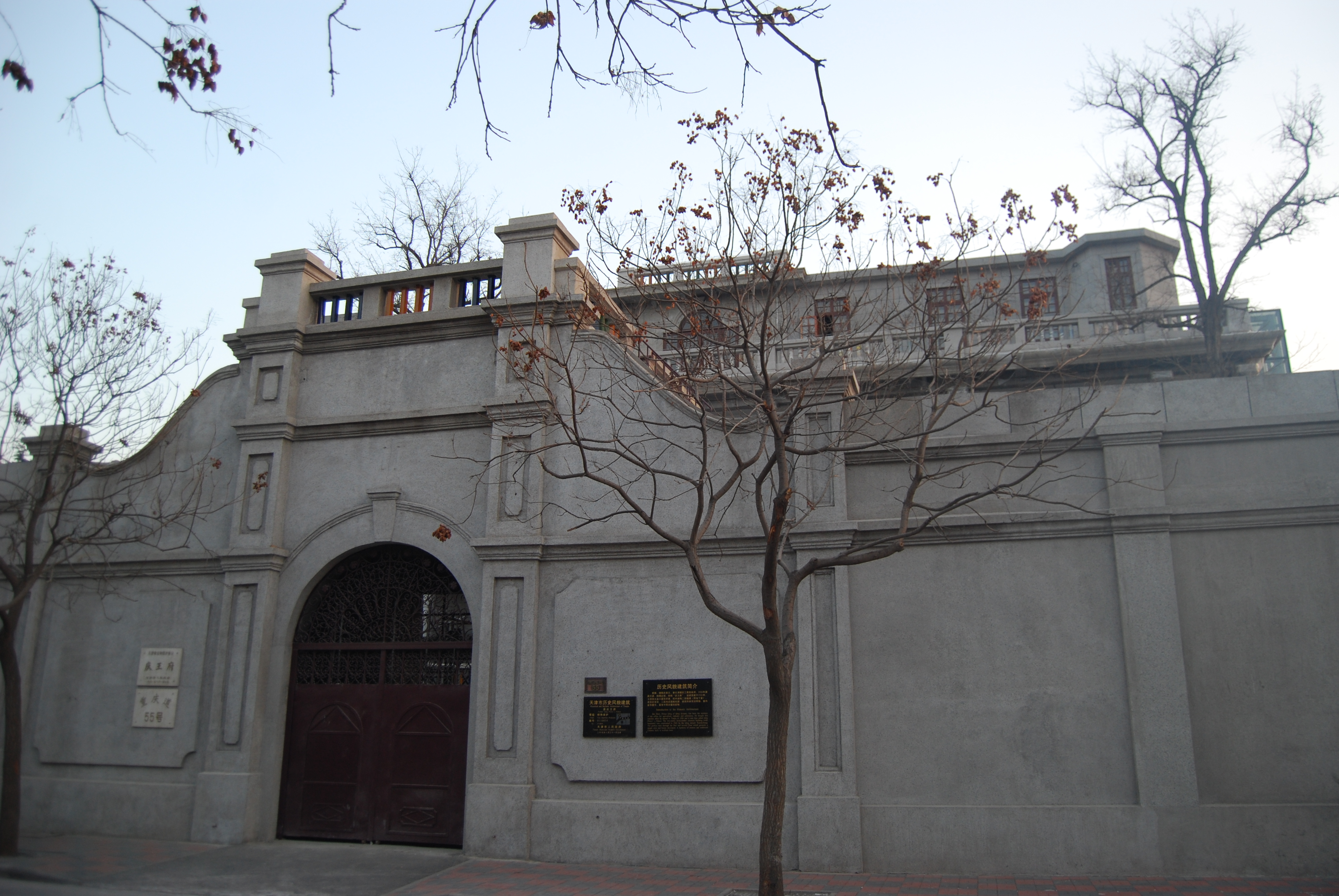 Former Qing Prince's Palace in Chongqing Dao No. 55, Heping District, Tianjin